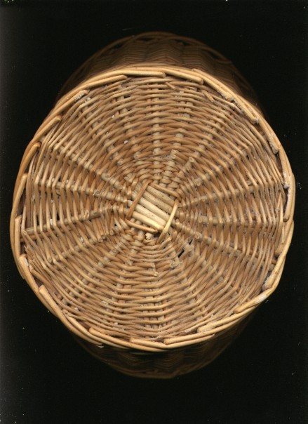 NLeamy A photograph I took of one of my own Banneton.